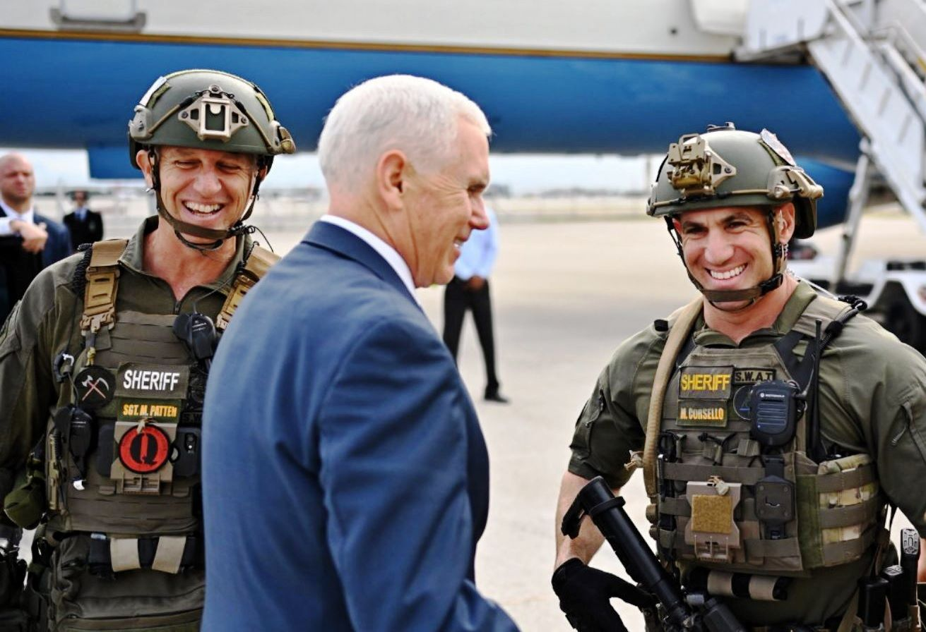 Vice-President Mike Pence posing with members of the Broward County, Florida SWAT team, one of whom is wearing a patch of the "QAnon" far-Right conspirationist movement.